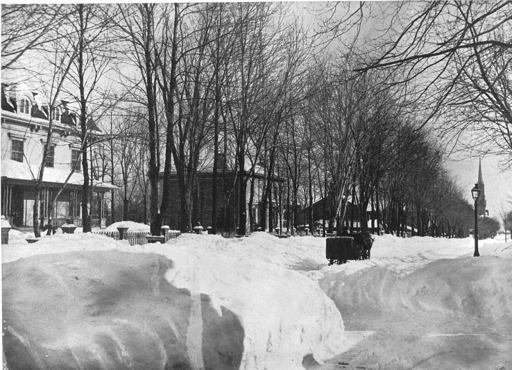 Drummond Street, Montreal, QC, 1879 Alexander Henderson 1879, 19th century Silver salts on paper - Albumen process 16 x 21 cm Gift of Mr. Stanley G. Triggs MP-0000.1828.79 © McCord Museum